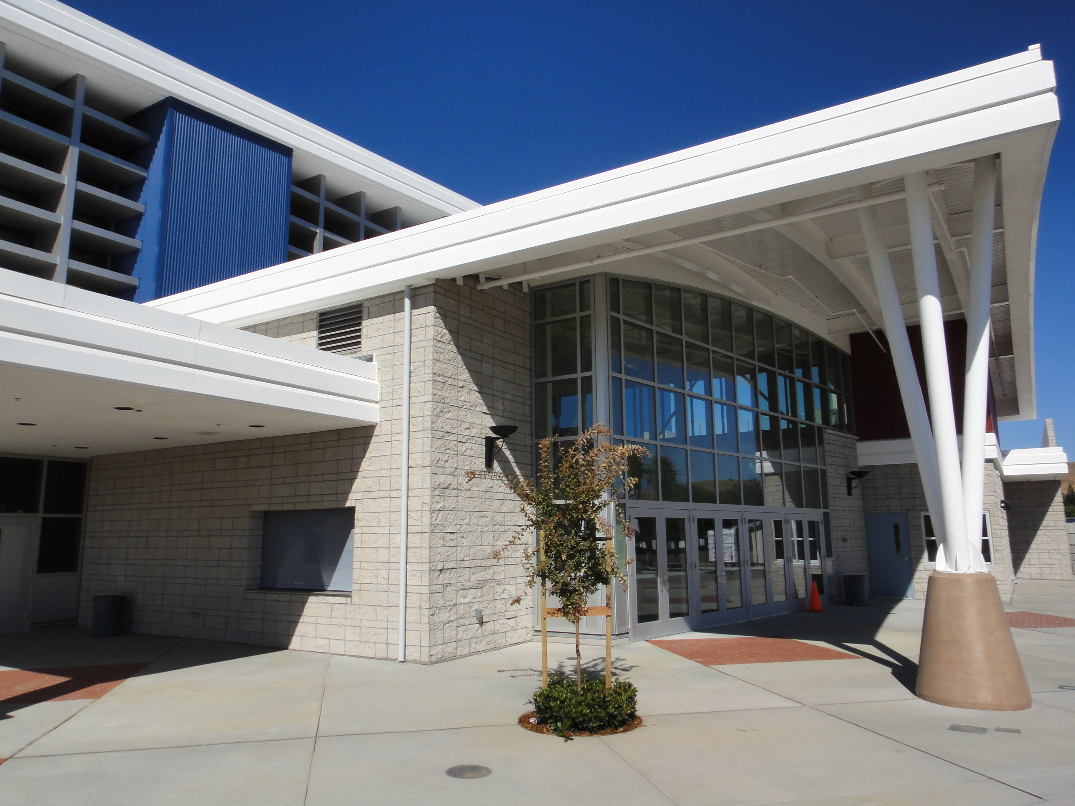 Dublin High School Sports Complex, Dublin, California (opened October 2010)